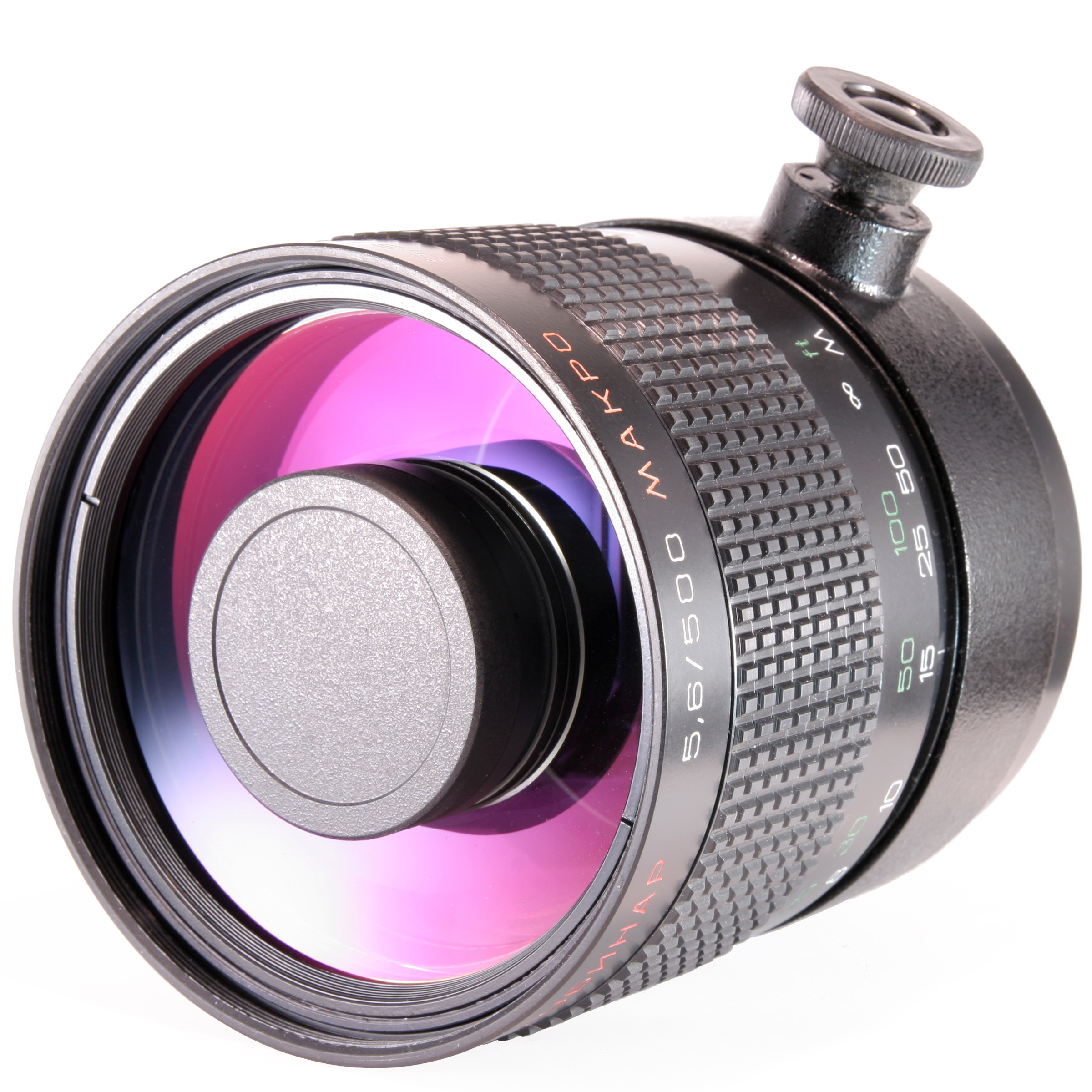 500 mm f 5.6 photographic catadioptric lens «Rubinar» from Russia. Image made with 50 mm focal length